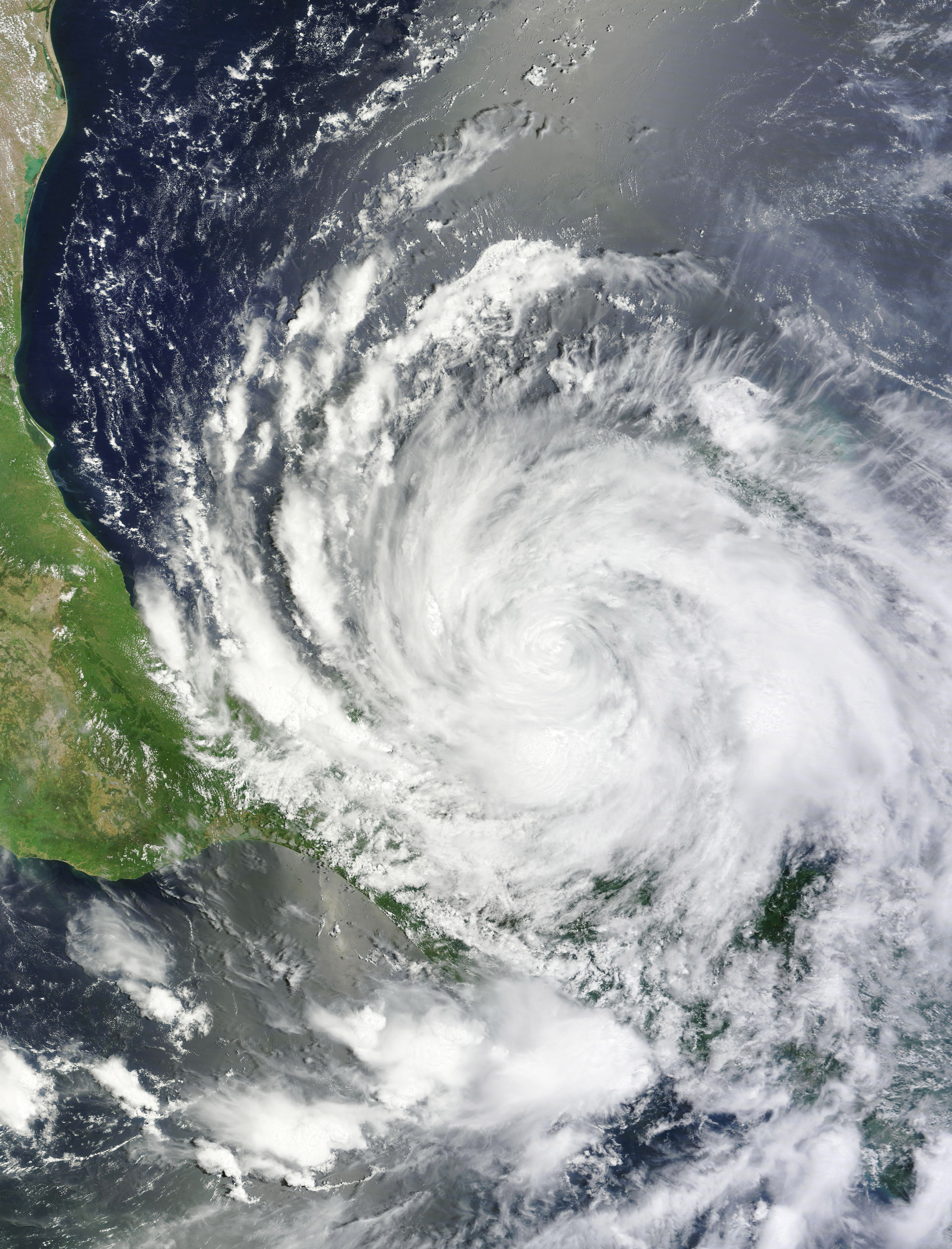 Tropical Storm Ernesto on August 8, 2012